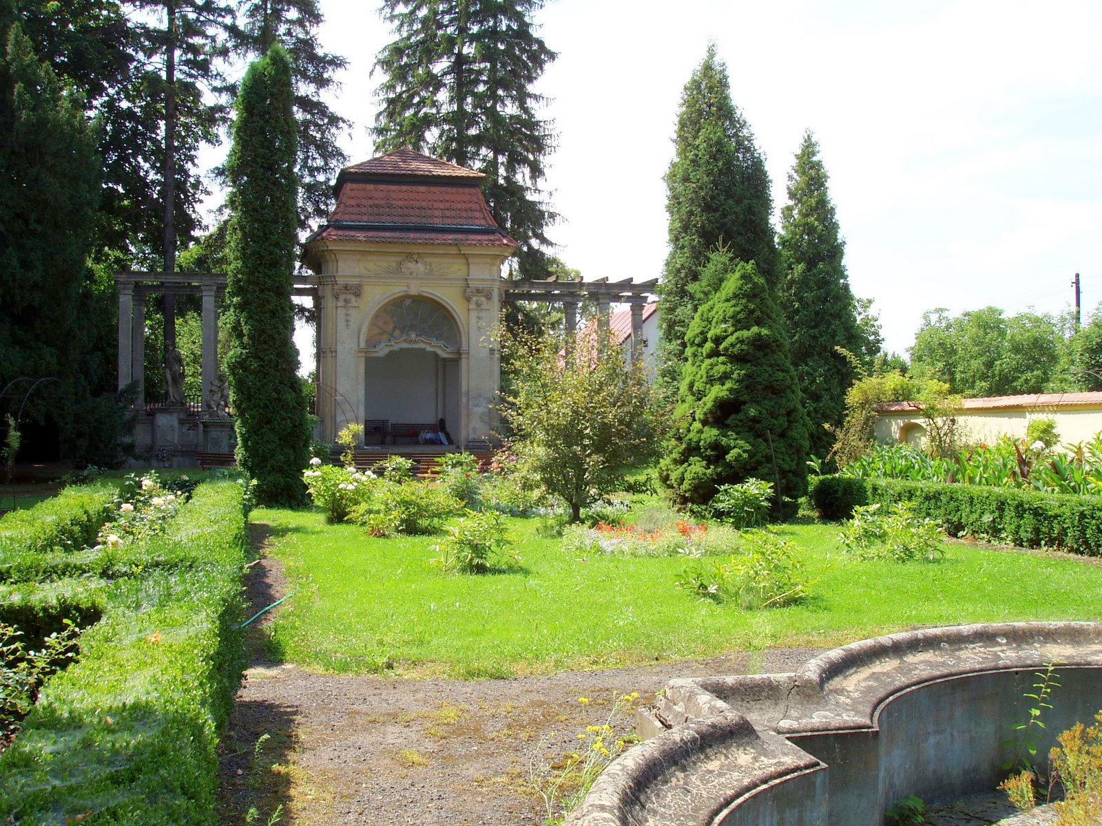 The gloriette in Vidim chateau, Czech Republic